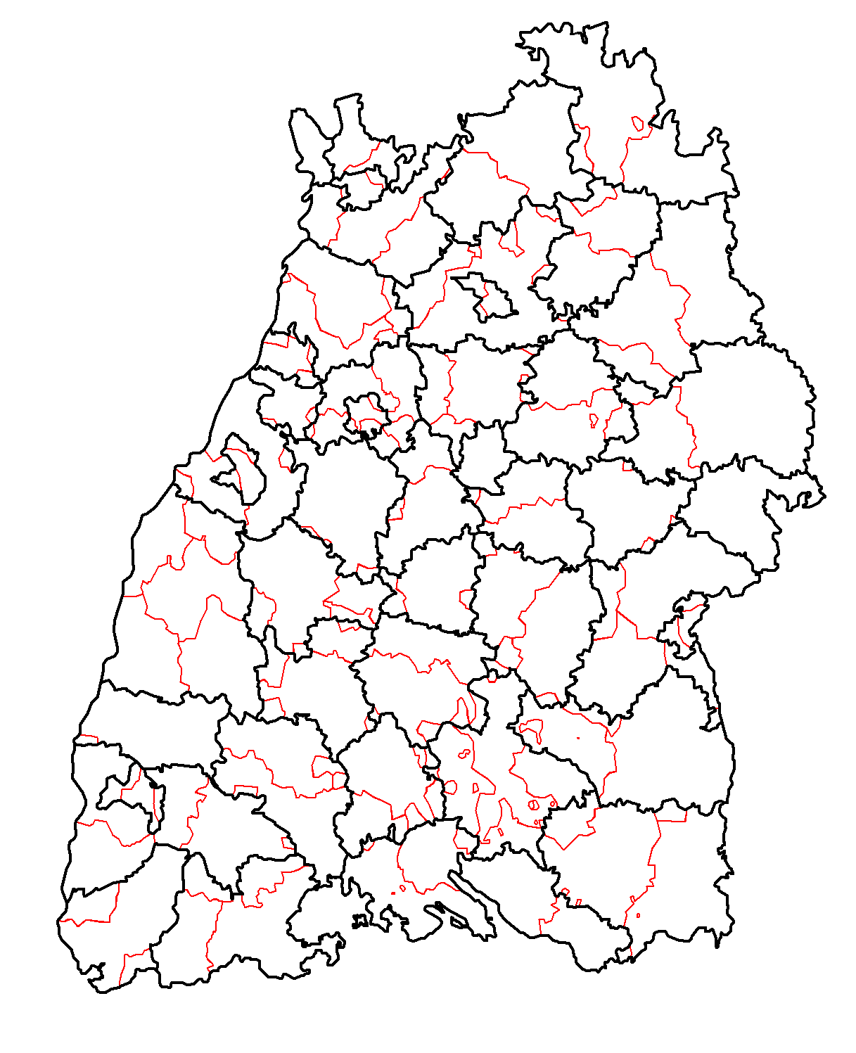 Changed county boundaries in Baden-Württemberg, Germany, 1973; black: new; red: old